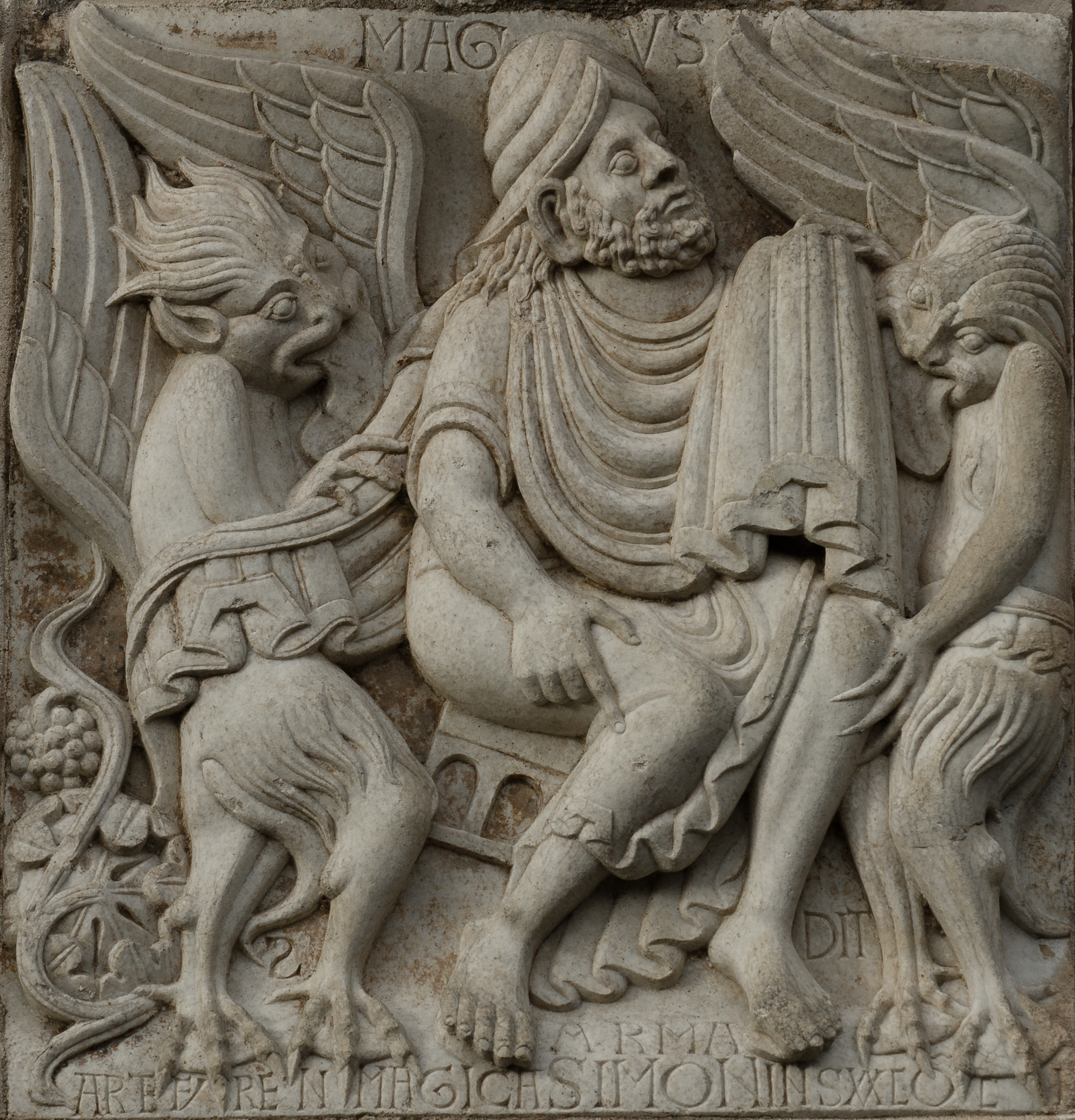 Relief on the Miègeville's gate of the basilica Saint-Sernin in Toulouse. The relief shows Simon magus, demons, and birth of the wine.